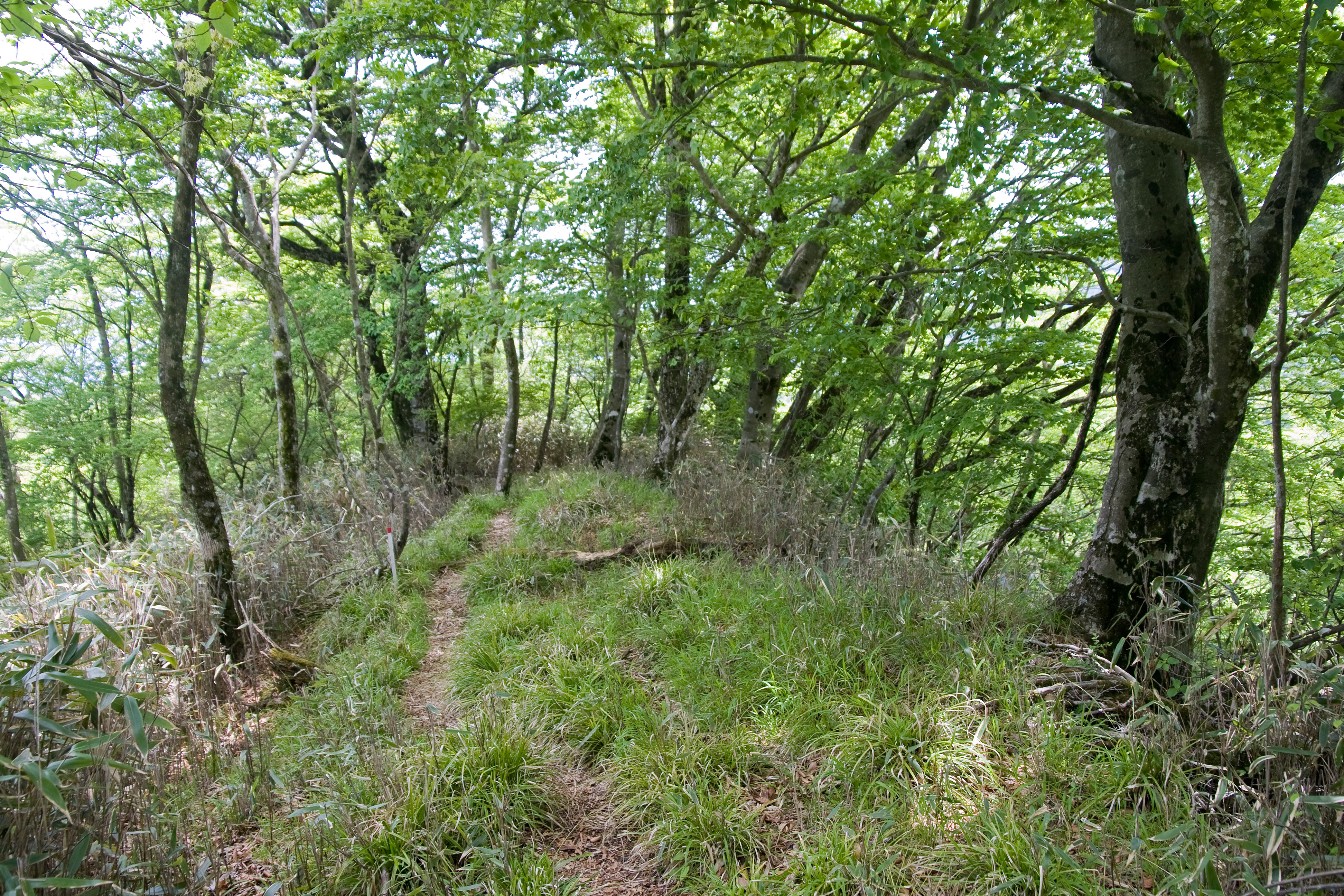 The forest in Mt.Daikaigi, Tanzawa Mountains, Kanagawa Pref., Japan.